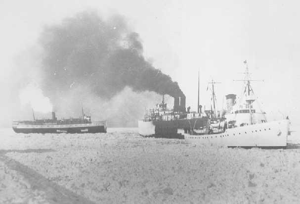 (original USCG caption) USS Escanaba, CG, [right] breaks ice to make a clear passage for two merchant vessels somewhere on the Great Lakes. Note the close proximity of the vessels. Escanaba was something of a celebrity on the Great Lakes and proved to be indispensable to the maritime traffic on these inland seas.